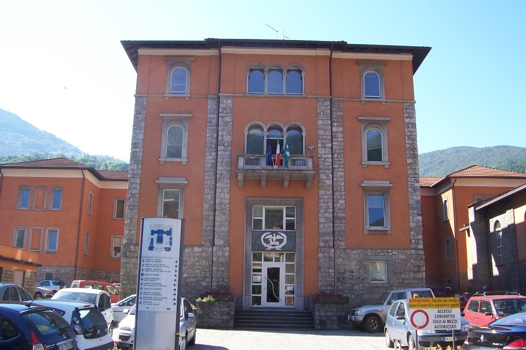 Comunità Montana di Valle Camonica, Breno, Valle Camonica